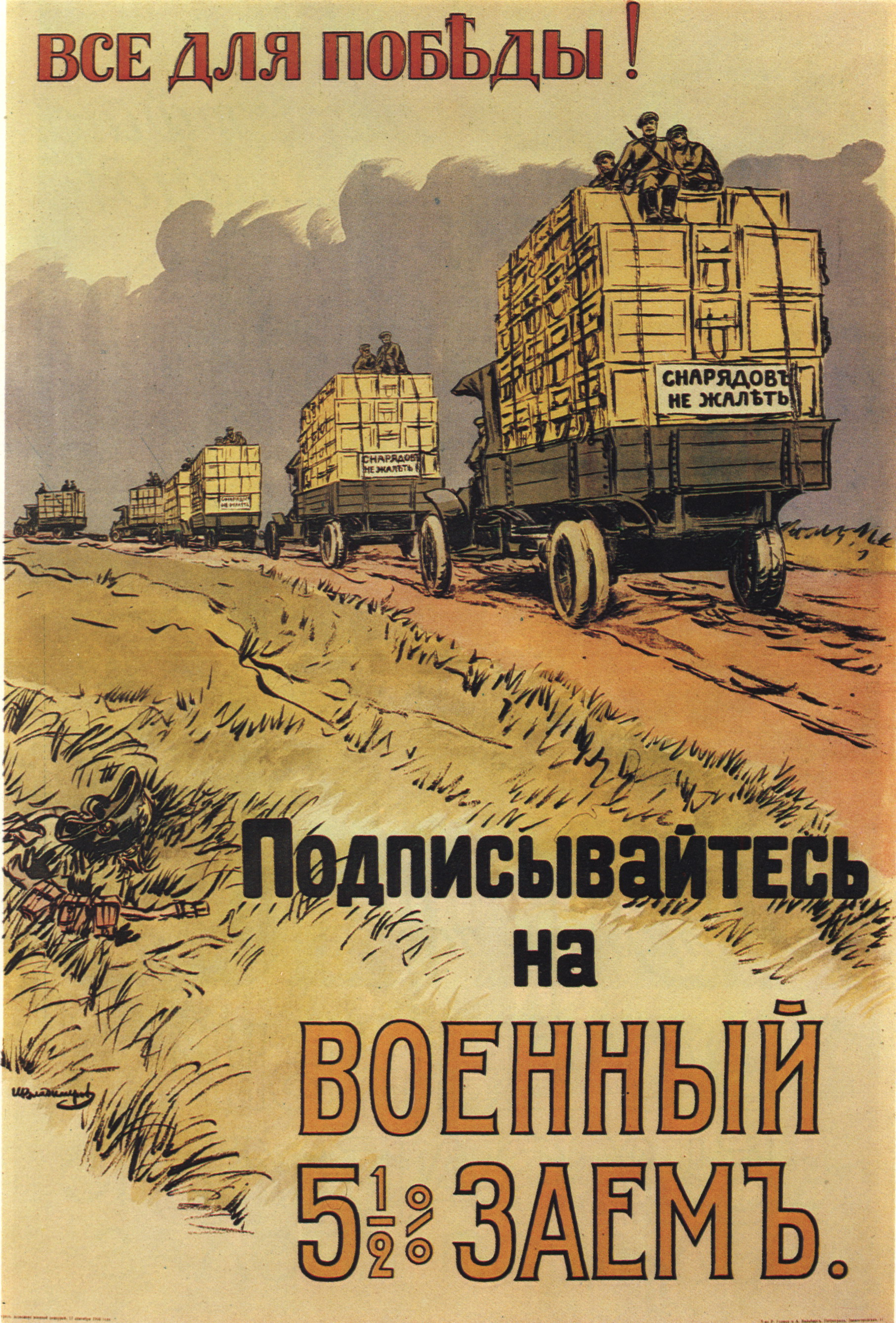 poster